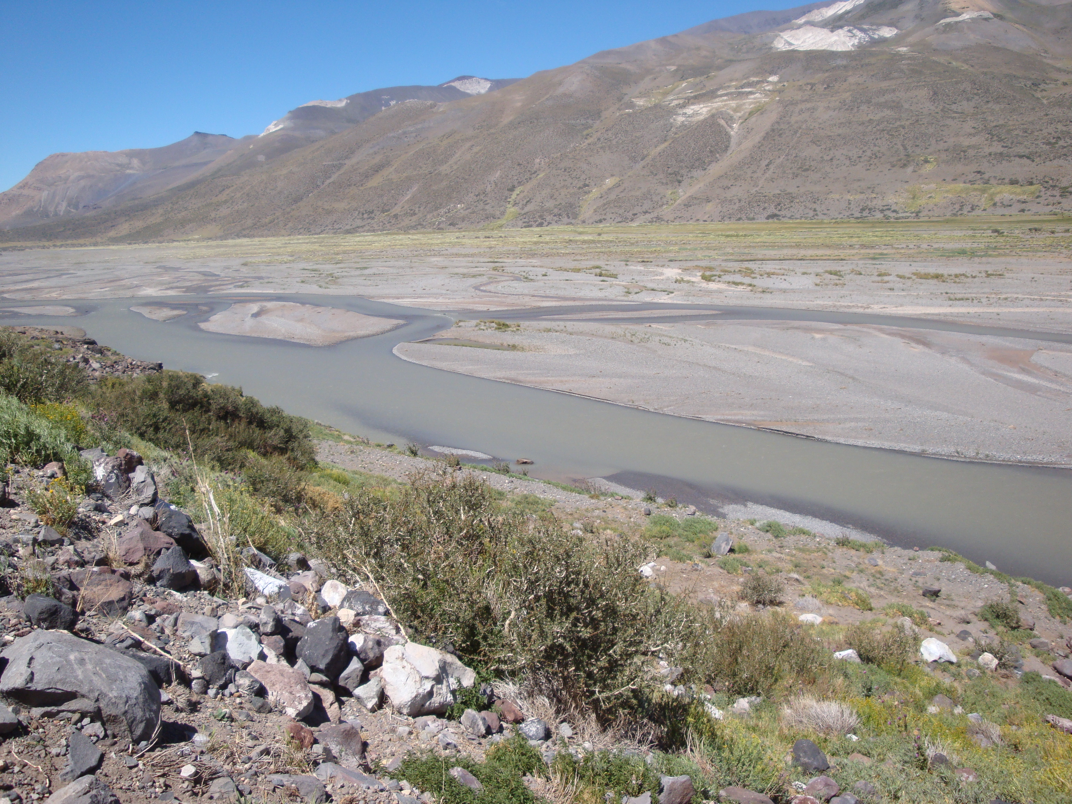 Atuel river